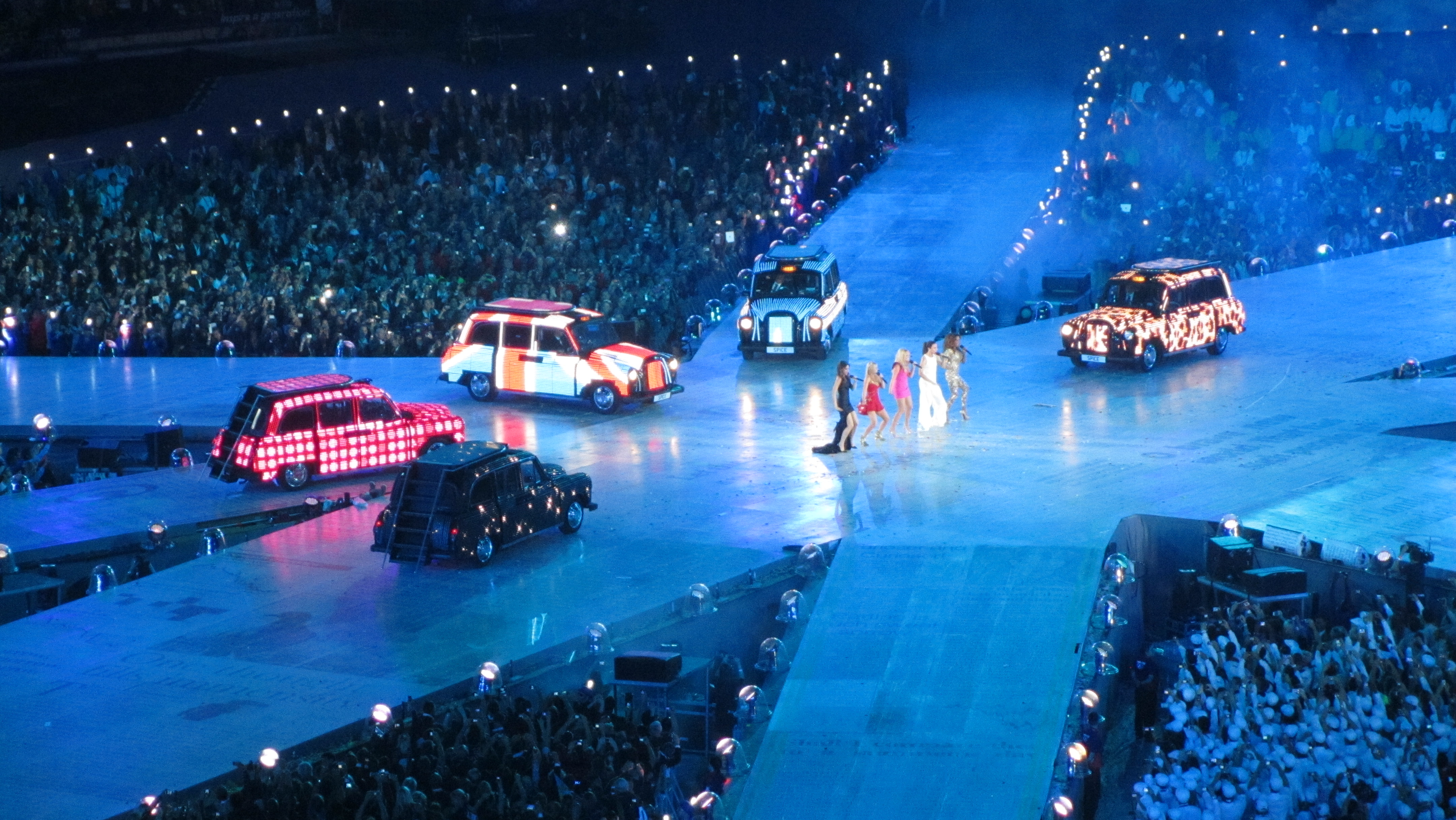 The Spice Girls at the Olympic Closing Ceremony